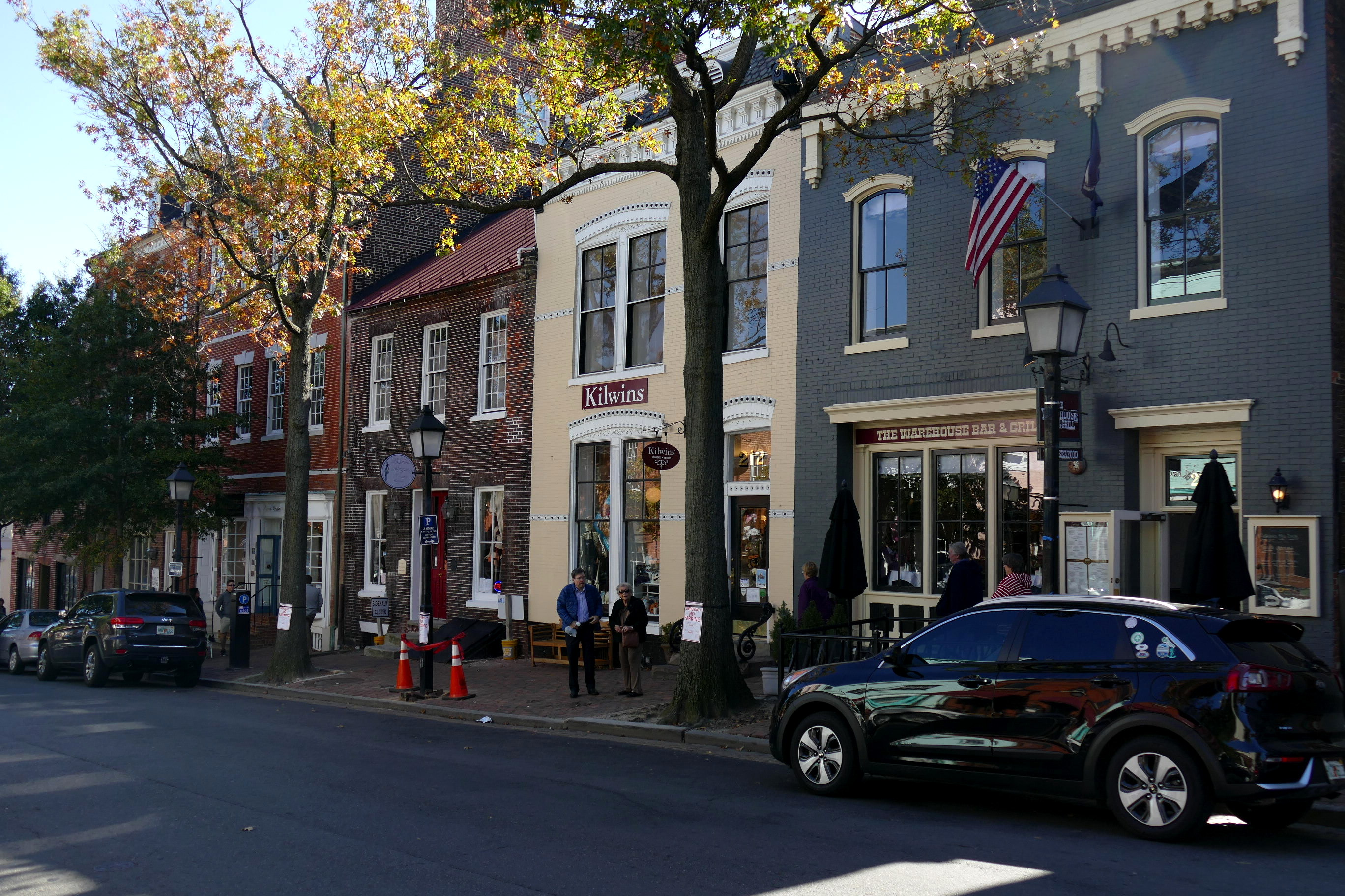 King Street - Alexandria, Virginia, USA, 27.10.2017